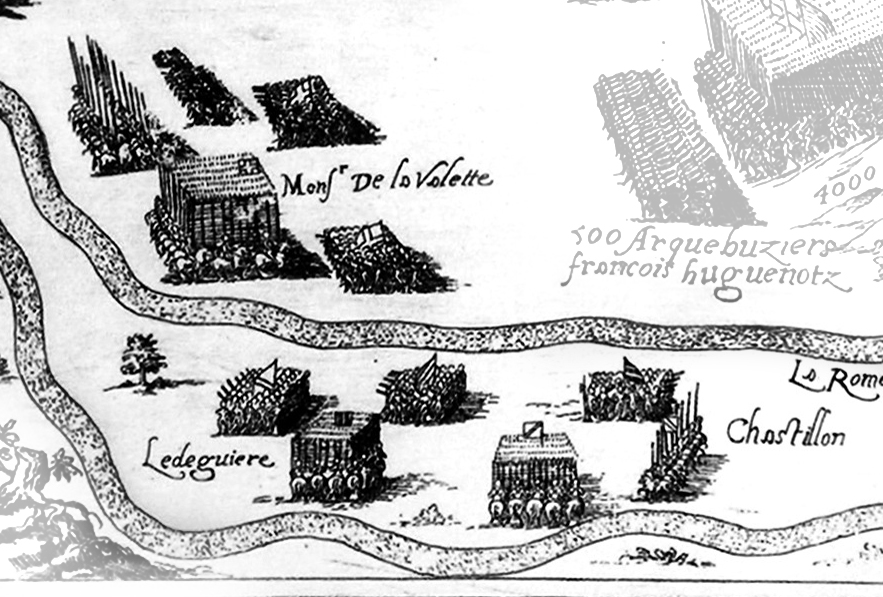 map representing positions during a battle